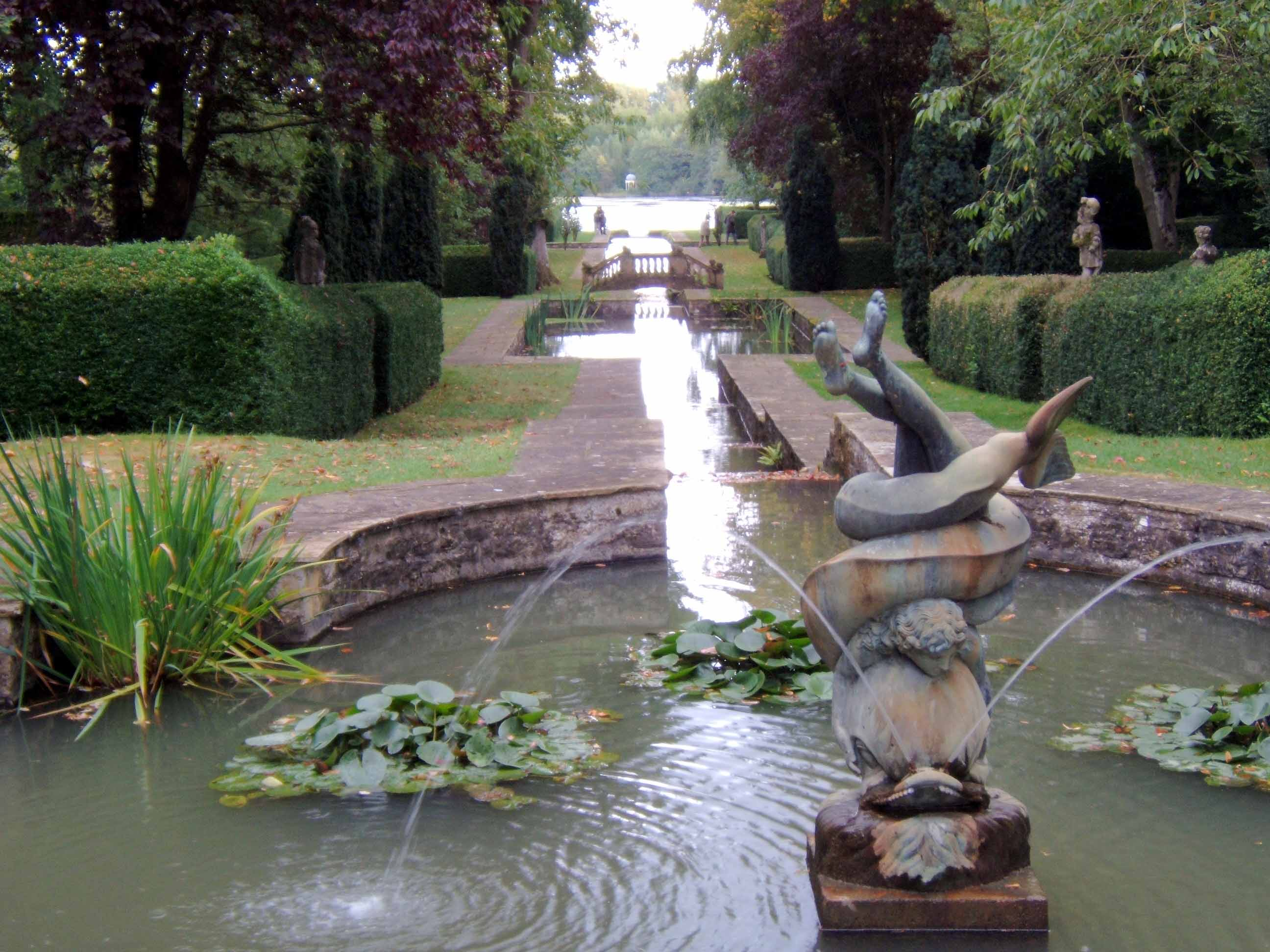 Fountain in Buscot Park, Oxfordshire (formerly Berkshire), England